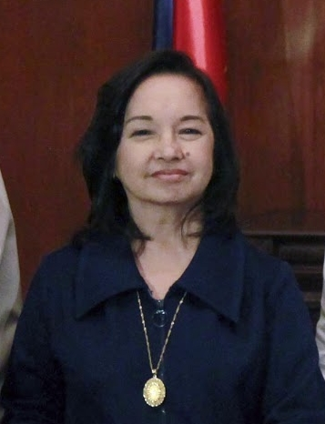 Gloria Macapagal Arroyo at the State Dining Room of the Malacañan Palace.jpg